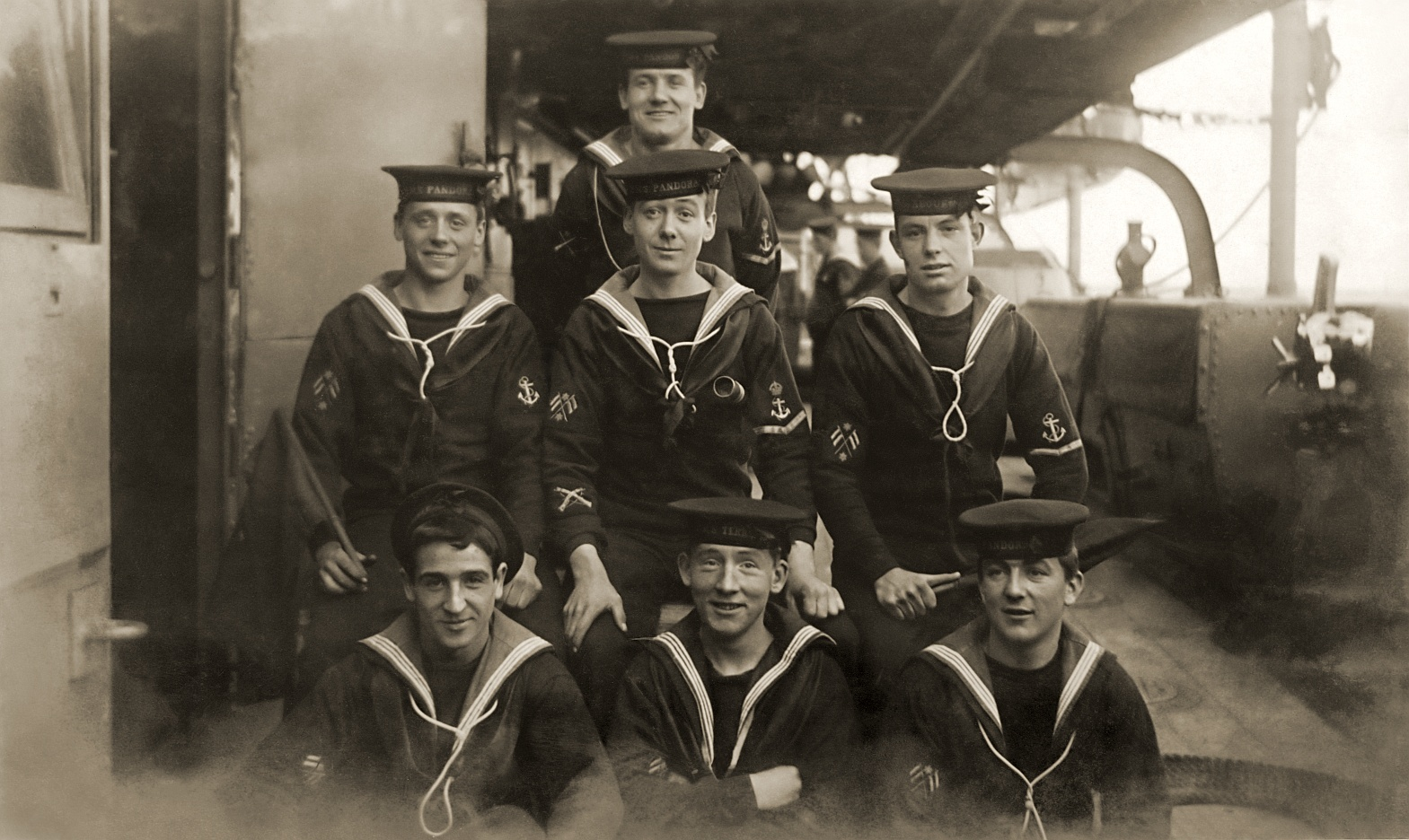 Signalmen on HMS Pandora (1900), posing for the camera. According to the handwritten text on the album sheet to which the photograph is affixed these are "Signal men" on H.M.S Pandora. There is no information as to who the photographer may be, and considering that the photograph must have been taken before 1913 (the date HMS Pandora was scrapped), it is unlikely that he/she can now be identified.